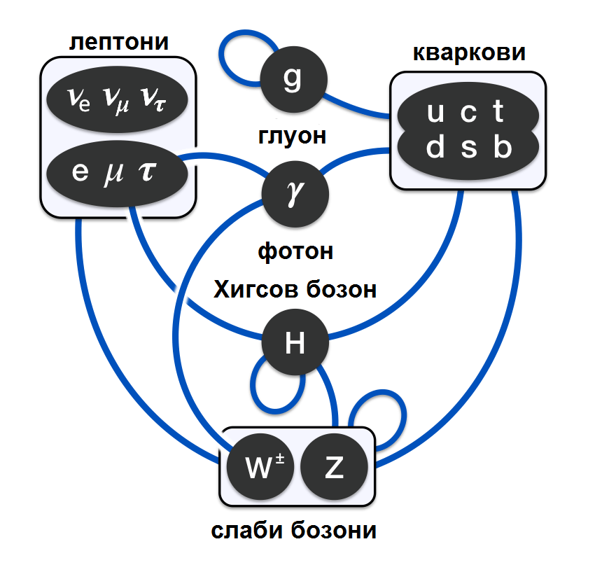 A diagram in Macedonian summarizing interactions between elementary particles according to the Standard Model.